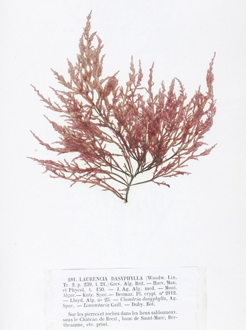 « Laurencia dasyphylla » = Chondria dasyphylla